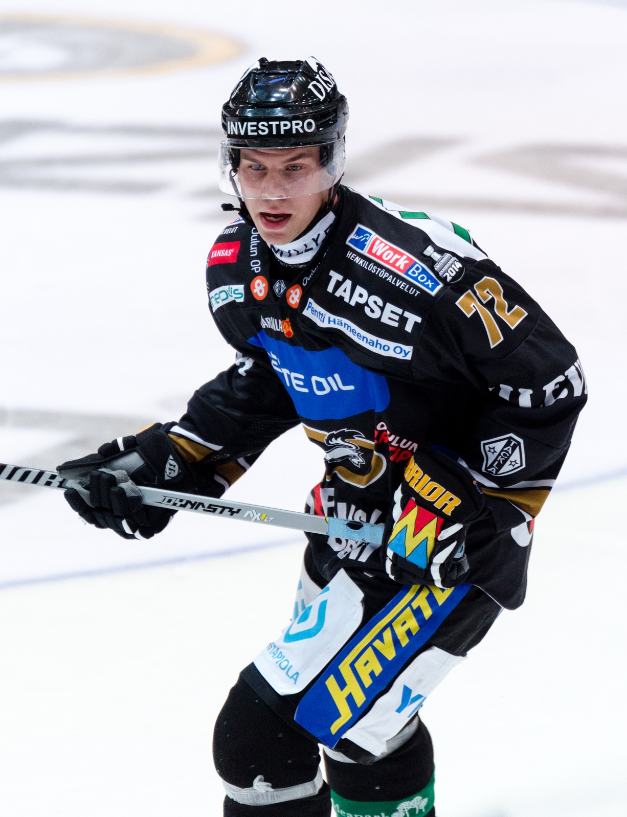 Joonas Donskoi on September 20th in Oulu, Finland.